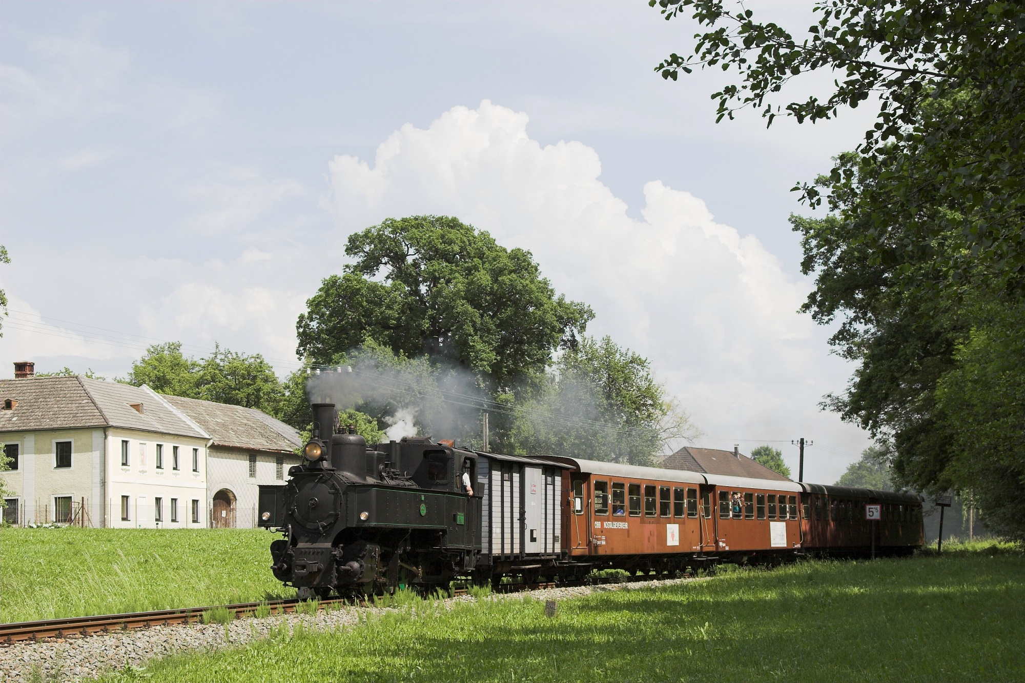 Special train with Bh.1 near Mank on the Mariazellerbahn's branchline